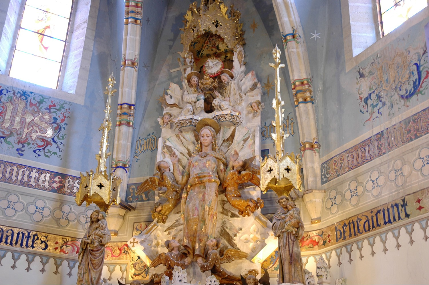 Altarpiece by Josep Maria Jujol in the parish church of Guimerà, Province of Lleida.